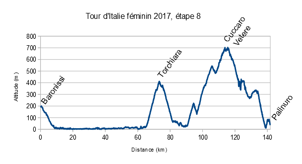 Profil de la 8e étape du Tour d'Italie féminin 2017